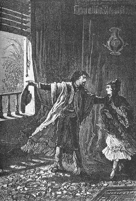 An illustration from Jules Verne's short story "Martin Paz" (1852) drawn by Jules Férat.